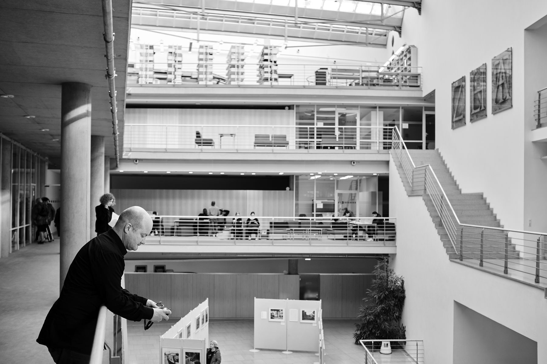 German photographer Lorenz Kienzle at the opening of the exhibition Brandenburger Notizen: Fontane – Krüger – Kienzle in the hall of Staats- und Universitätsbibliothek Göttingen, Photo: Ralf König (2019)